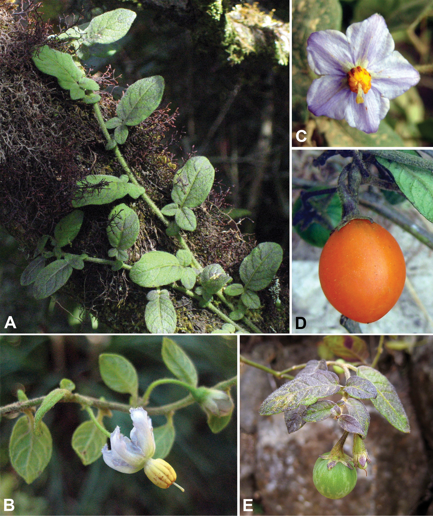 Solanum baretiae Tepe. A Habit B Flower showing reflexed corolla and bud C Flower with flat corolla D Mature fruit E Immature fruit; note mottling, which is absent in the mature fruit. [A–B Tepe and McCarthy 3346; C Tepe et al. 2885; D Bohs et al. 3735; E Tepe et al. 2888].